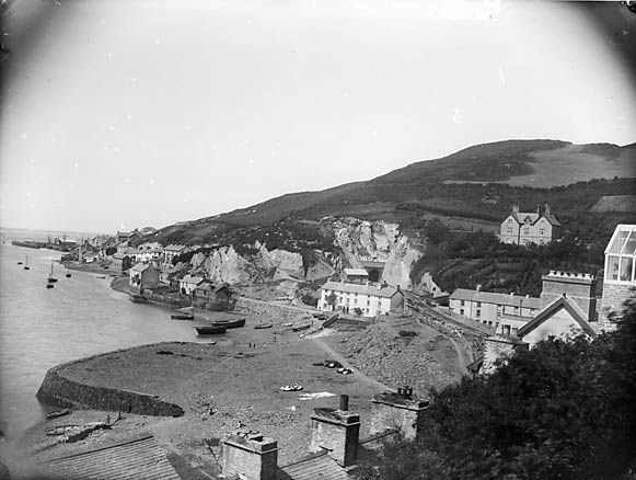 1 negative : glass, dry plate, b&w ; 16.5 x 21.5 cm.